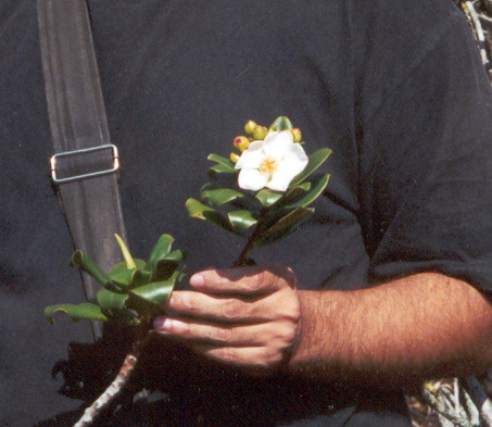 Flower of Bonnetia anceps. Photo by M. A. P. Accardo Filho.